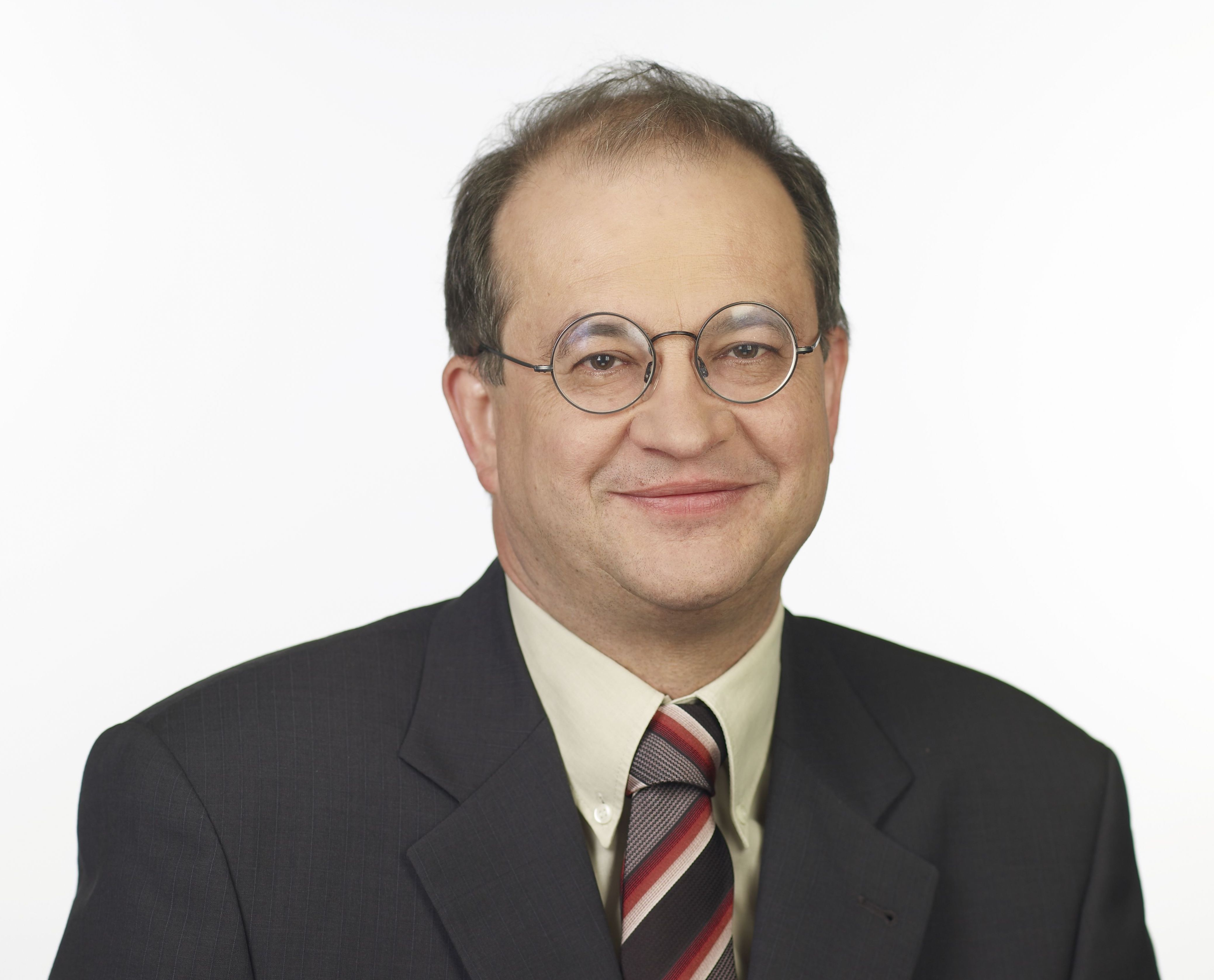 Arnold Vaatz, Member of the German Bundestag